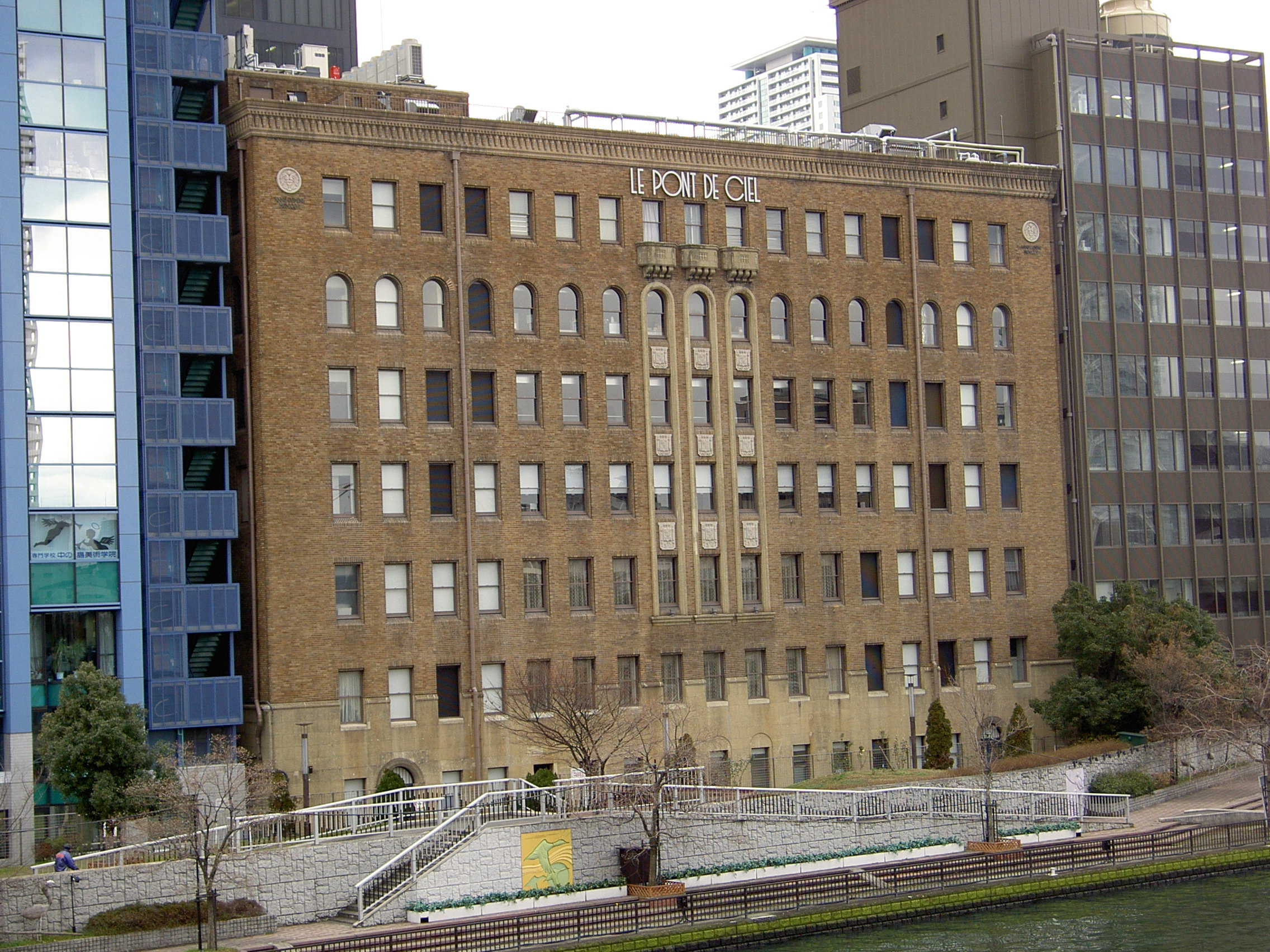 LE PONT DE CIEL Bldg. (Former Obayashi Gumi Honten Bldg.) 6-9, Kitahamahigashi, Chuuo-ku, Osaka-shi, Osaka Japan.